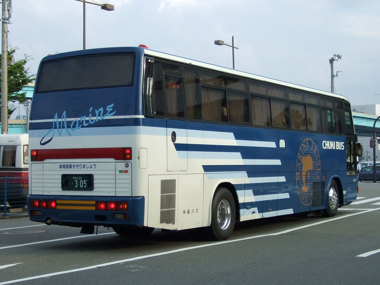 Company:Chuki Bus Use:tour bus Car license:和歌山22 き・305 Code:107 Chassis manufacturer:Mitsubishi Motors Coachbuilder:Shin-Kureha Body Location:in Hakata-ku, Fukuoka City, Fukuoka, Japan